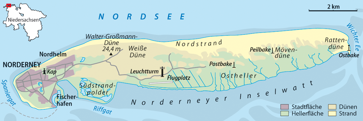 Map of Norderney